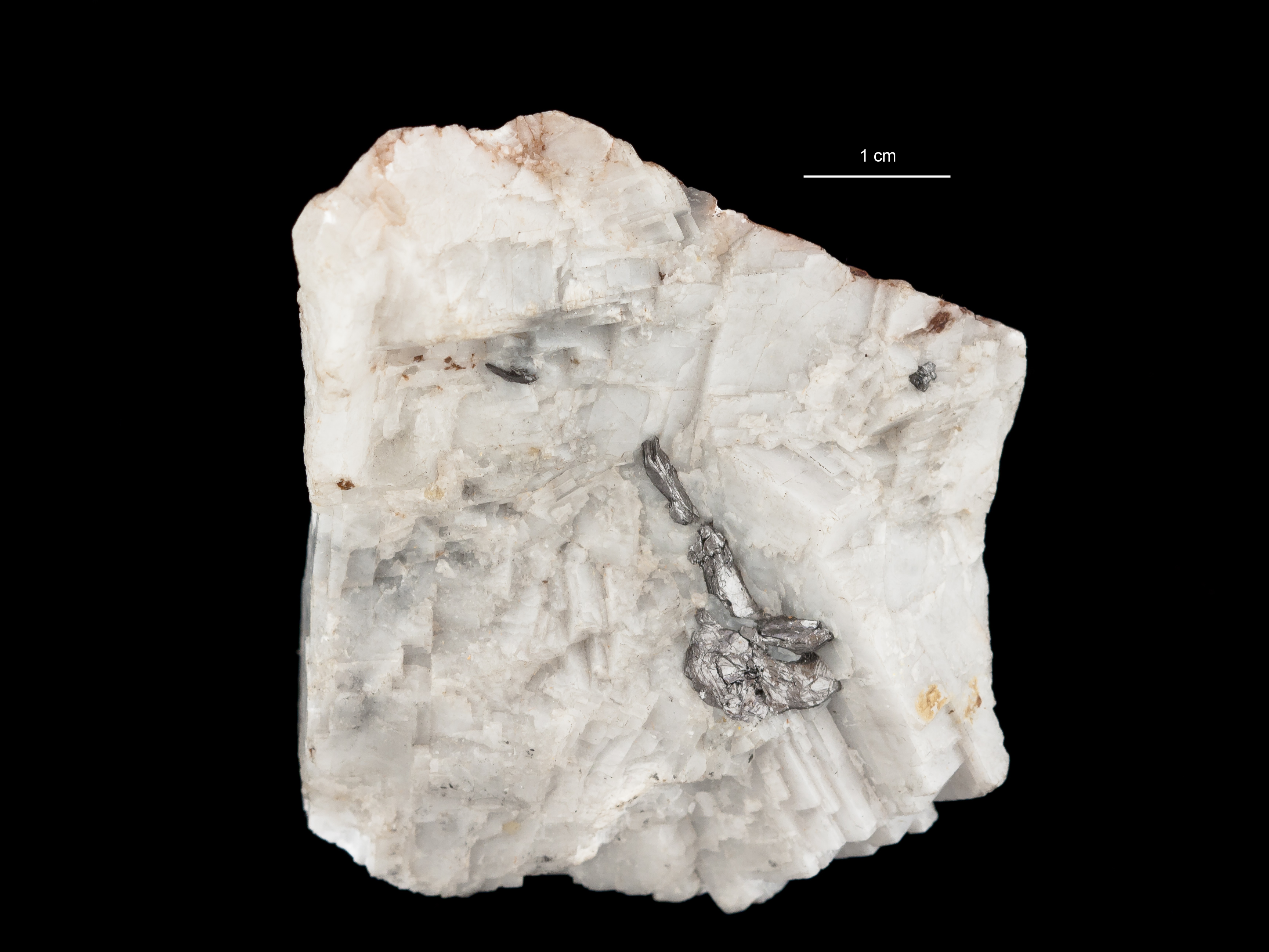 Blades of graphite embedded in calcite matrix. Graphite is one of the three allotropic forms which the element carbon exists in nature, the other two being coal and diamond. More info about this file and about this specimen at